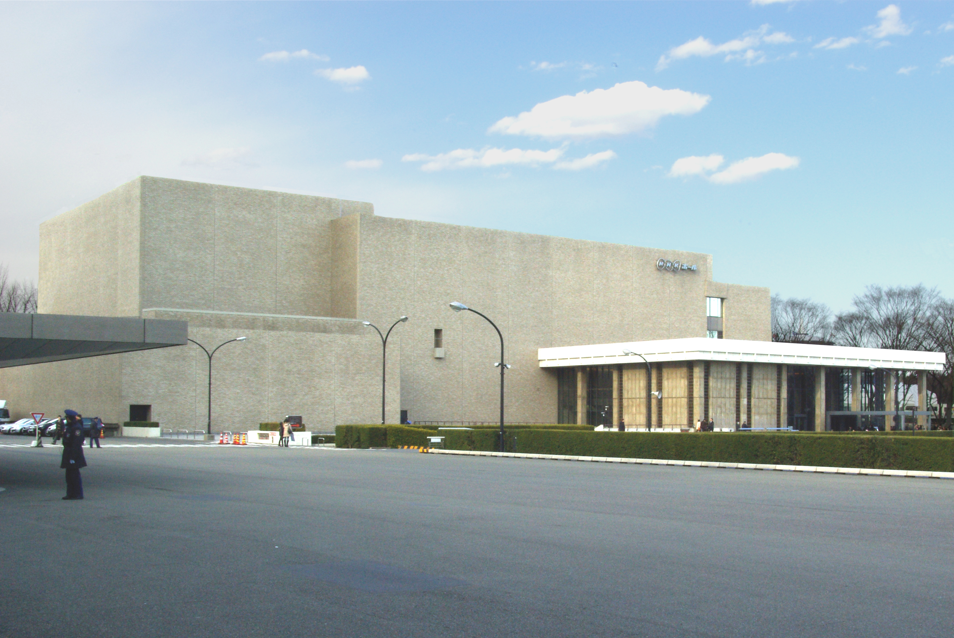 NHK Hall in Shibuya Ward, Tokyo, Japan